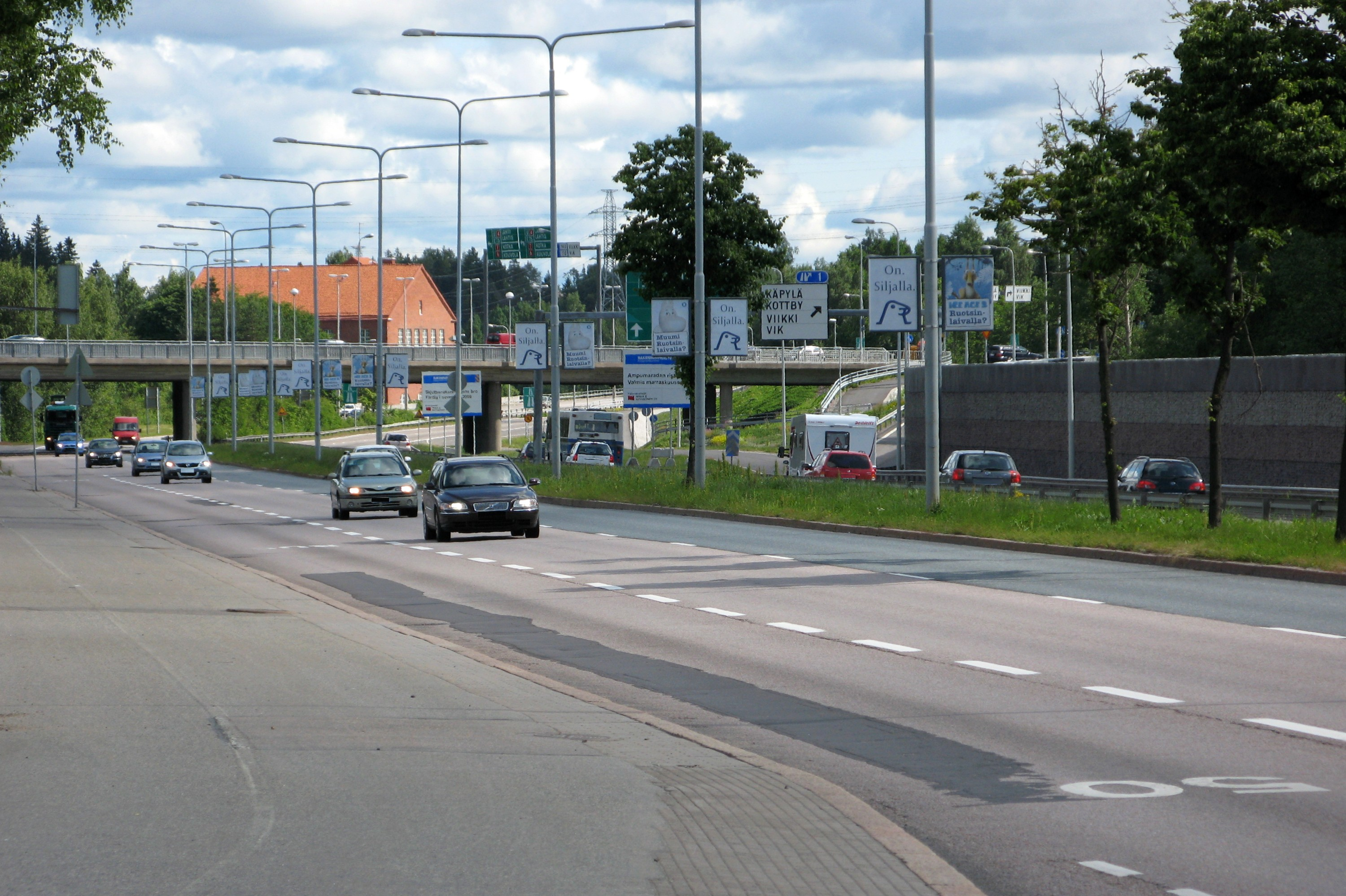 Kustaa Vaasantie-street (Highway 4, E75) in Helsinki, Finland.